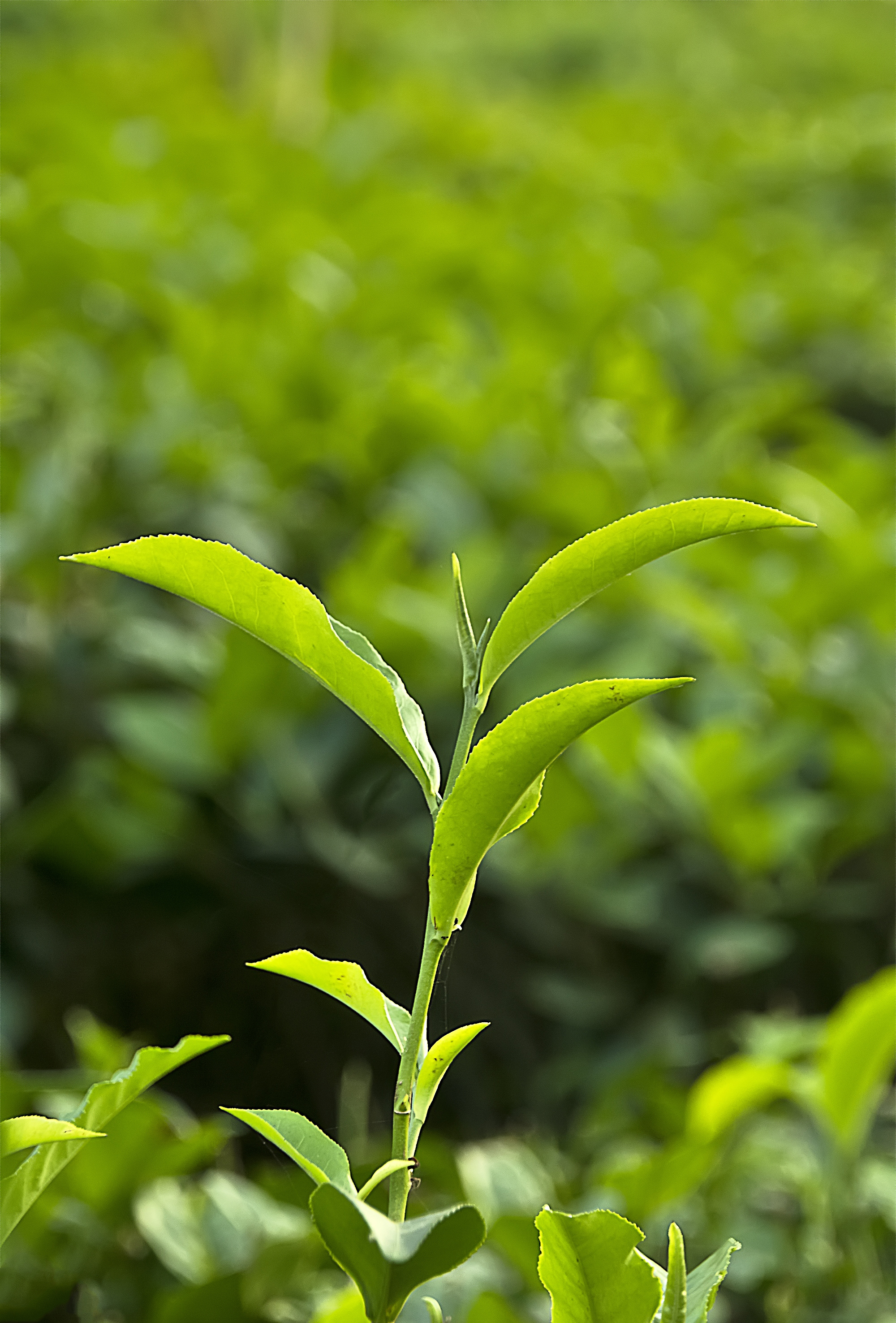 Tea is an aromatic beverage commonly prepared by pouring hot or boiling water over cured leaves of the tea plant, Camellia sinensis.[3] After water, tea is the most widely consumed beverage in the world.[4] It has a cooling, slightly bitter, and astringent flavour that many people enjoy.[5] Tea likely originated in China during the Shang Dynasty as a medicinal drink.[6] Tea was first introduced to Portuguese priests and merchants in China during the 16th century.[7] Drinking tea became popular in Britain during the 17th century. The British introduced tea to India, in order to compete with the Chinese monopoly on tea